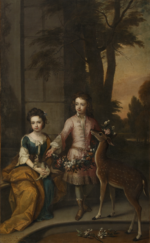 A 1690s 244.5 x 153 cm oil-on-canvas painting of Lionel and Mary Sackville by Godfrey Kneller held at Knole House